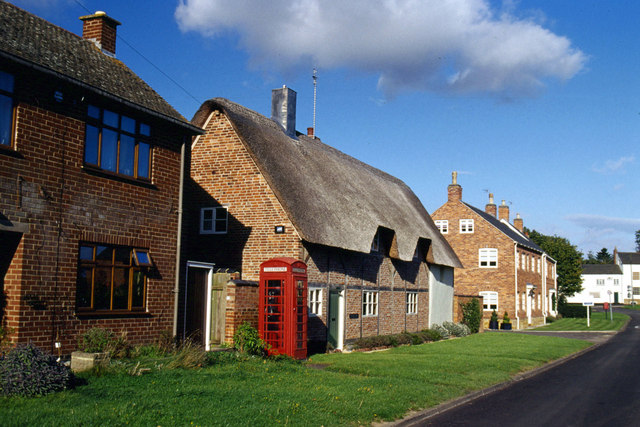 Tur Langton Looking east along Main Street.